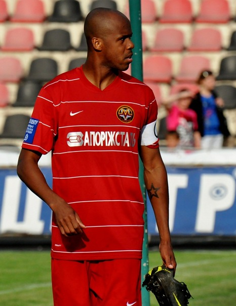 Junior Godoi, Brasilian footballer, during the game for FC Metalurh Zaporizhya